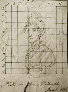 Anna Rouw, wife of the sculptor Peter Rouw. by Henry Bone, probably after George Francis Joseph pencil drawing squared in ink for transfer, March 1806; 5 1/8 in. x 3 3/4 in. (129 mm x 95 mm). Acquired by the National Portrait Gallery, London, from Sir George Scharf, 1890, NPG D17307